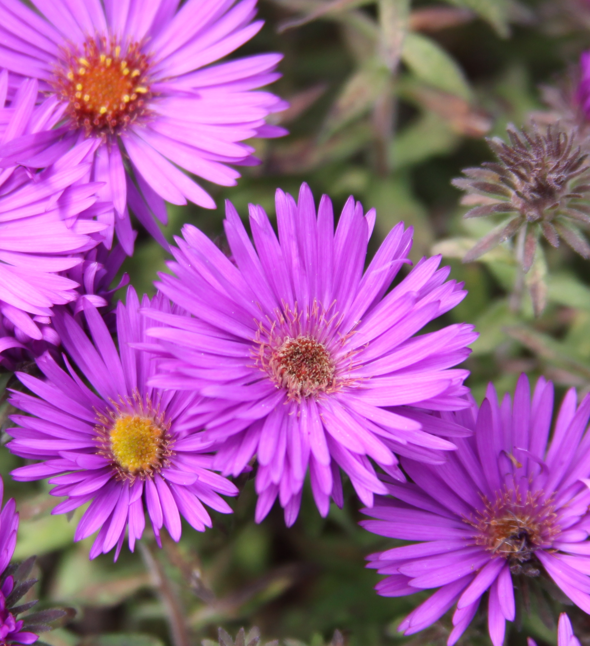 National Arboretum